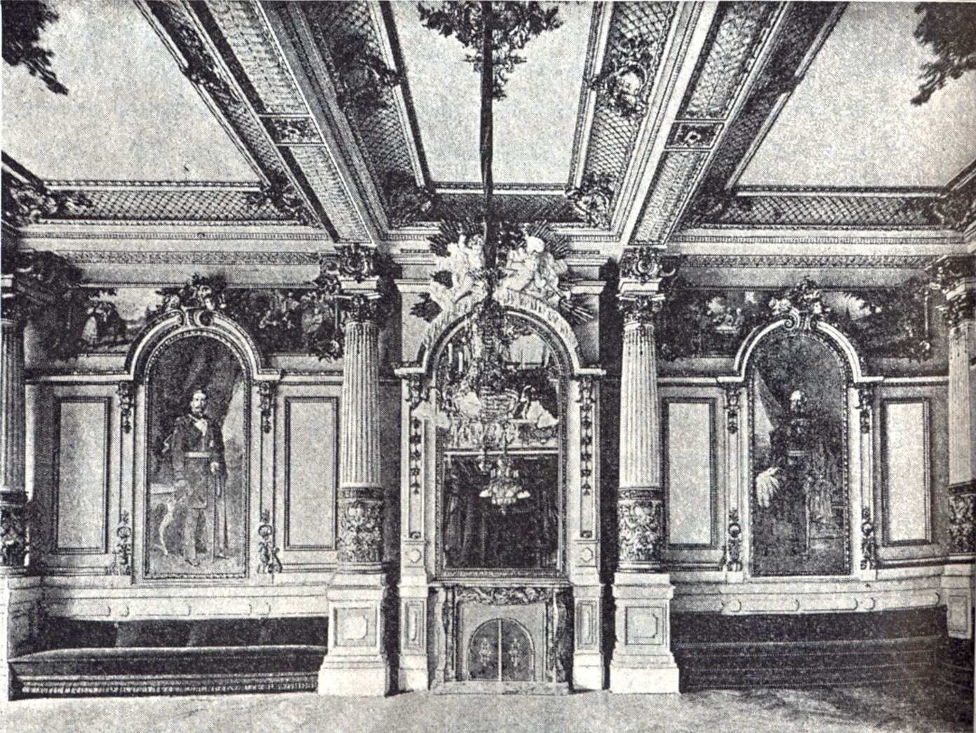 Hotel Kaiserhof, Big Hall, Leipzig, Germany